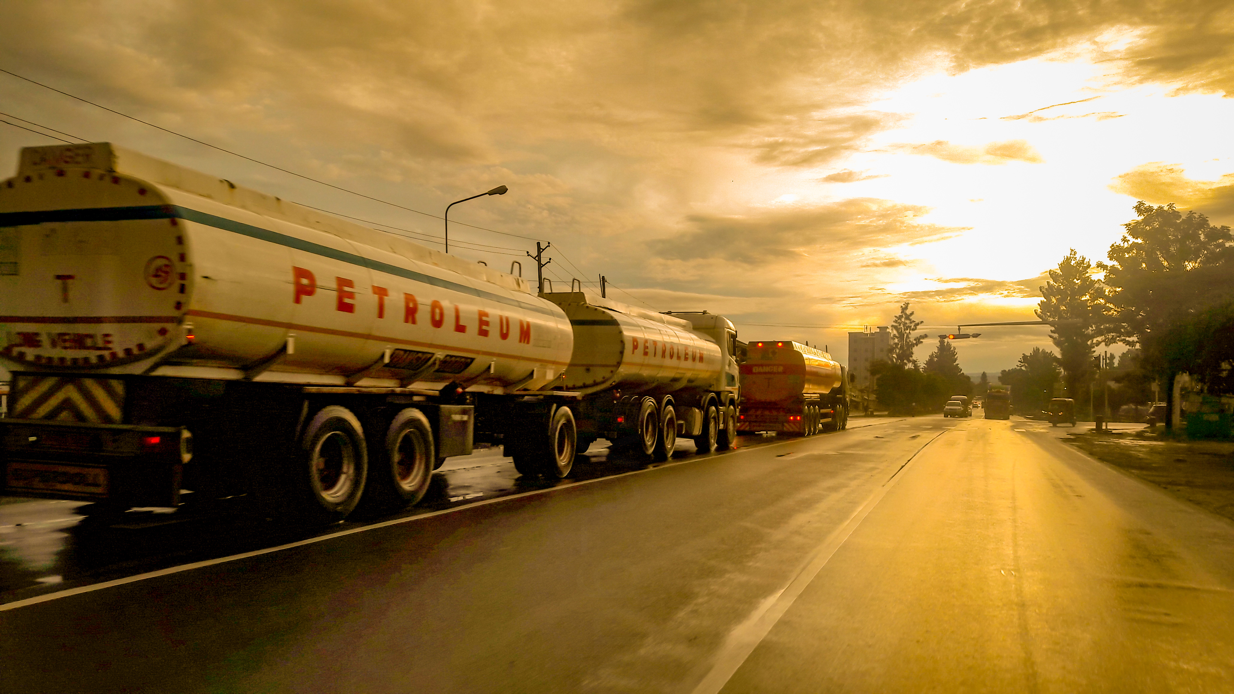 Transportation This is an image with the theme "Africa on the Move or Transport" from: Tanzania